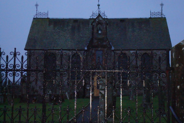 Gartmore Church